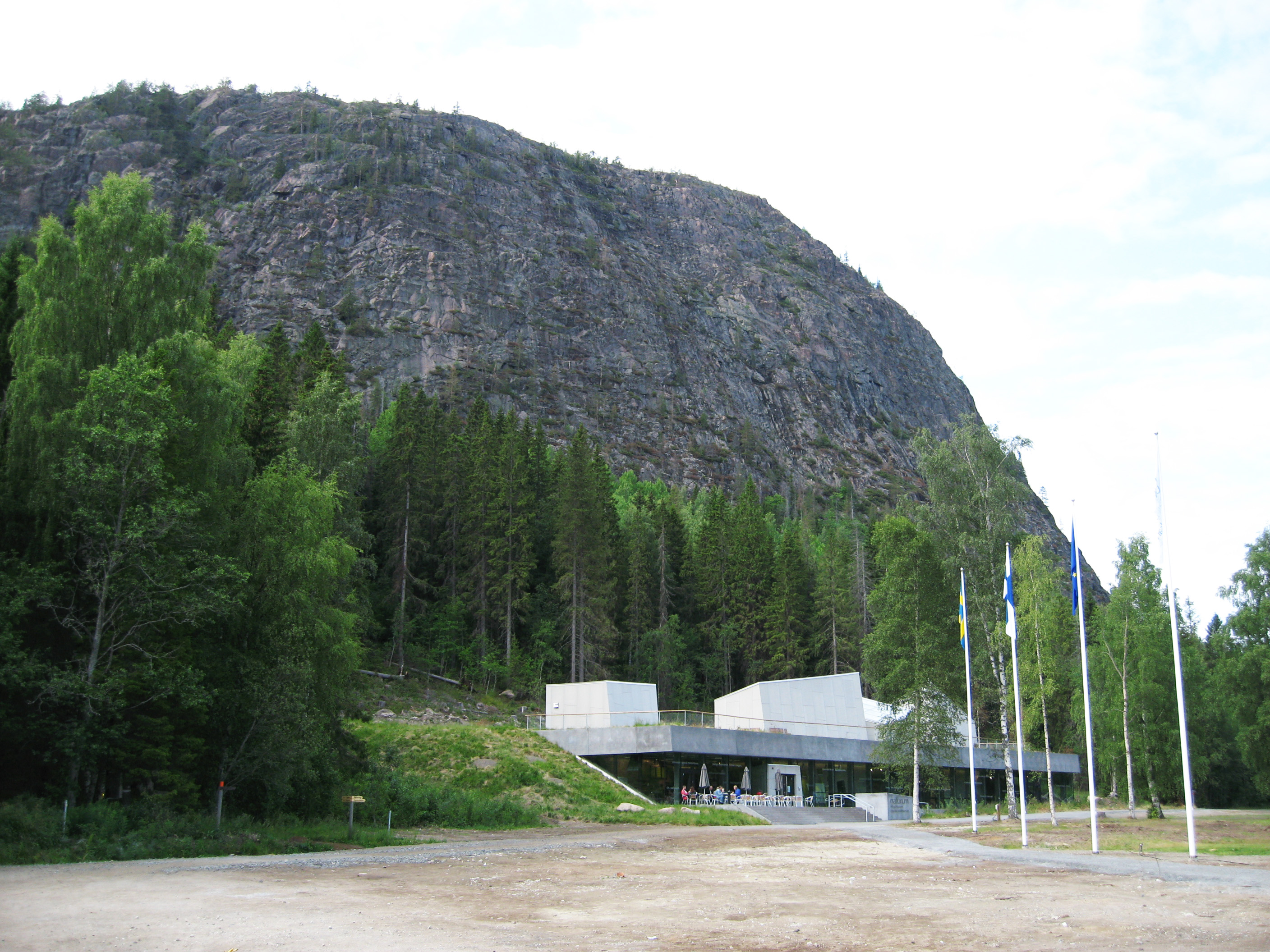 Skuleberget – image manipulated (mountain made higher than it really is, see cloned parts at the top)